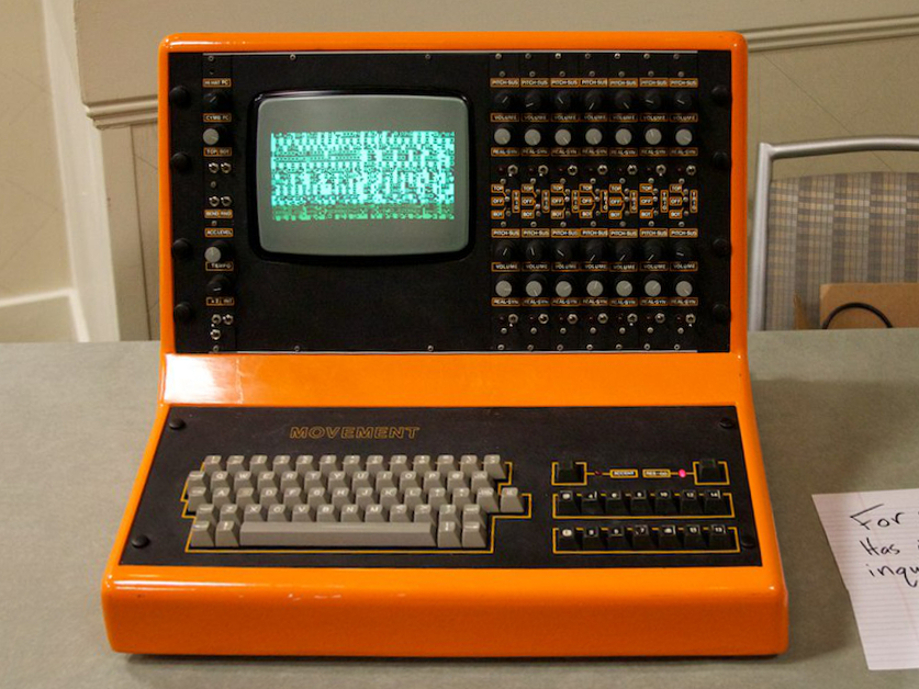 Movement Computer Systems (MCS) Drum System II (or Percussion Computer II), circa 1981, United Kingdom